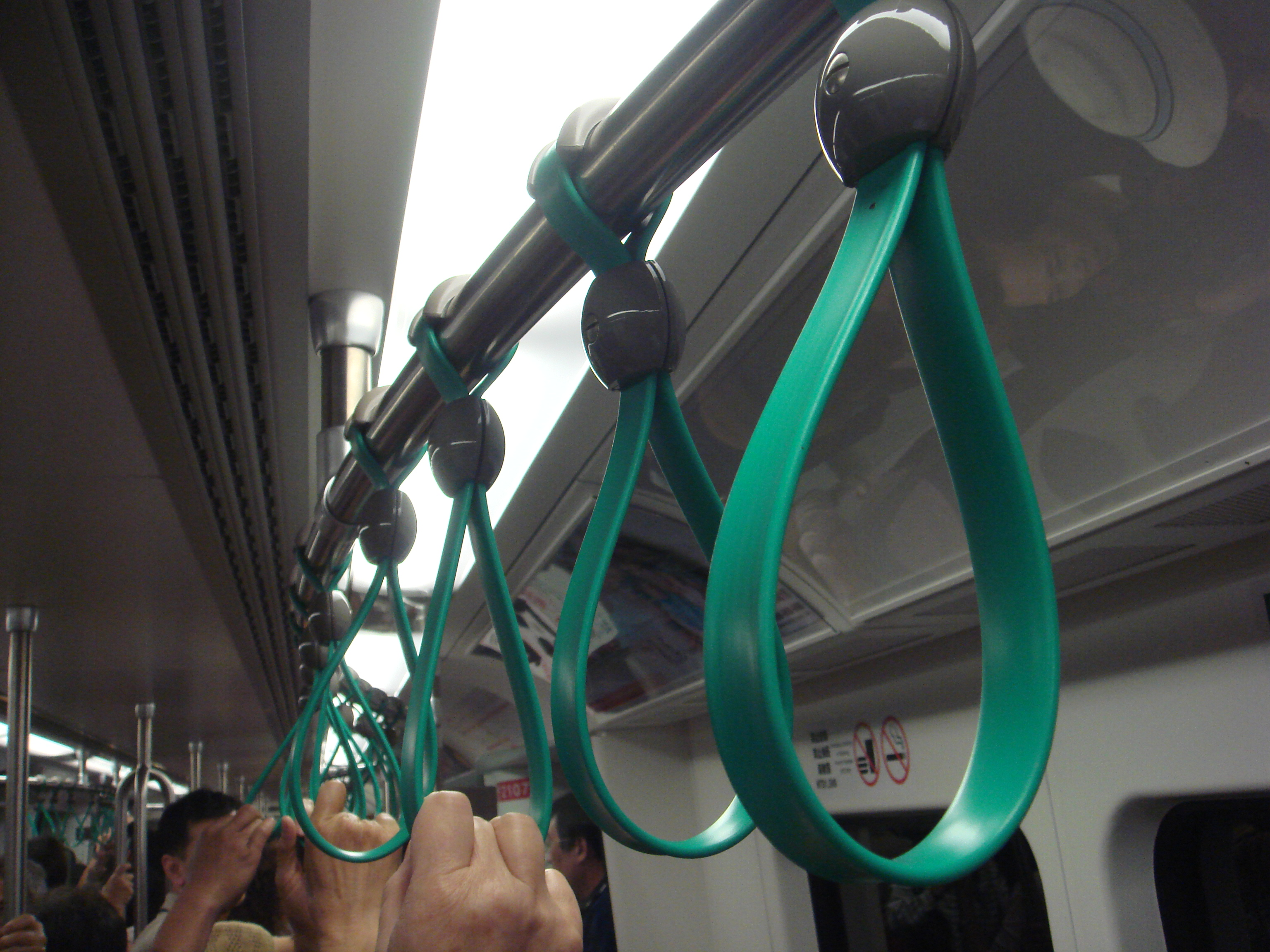 圓弧形的設計可以放更多拉環 Stations of Kaohsiung Metro Red Line